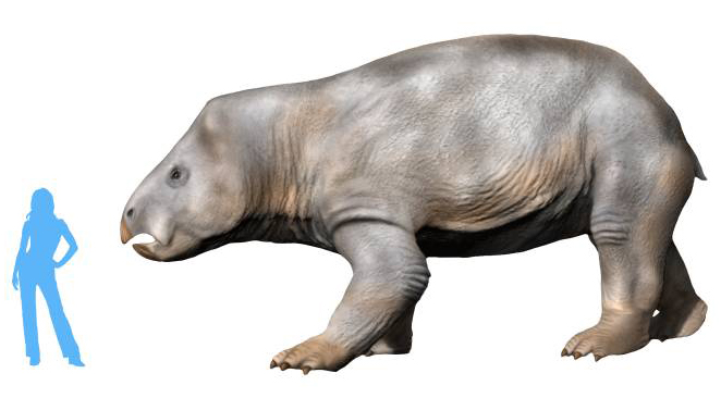 Restoration of Lisowicia bojani.